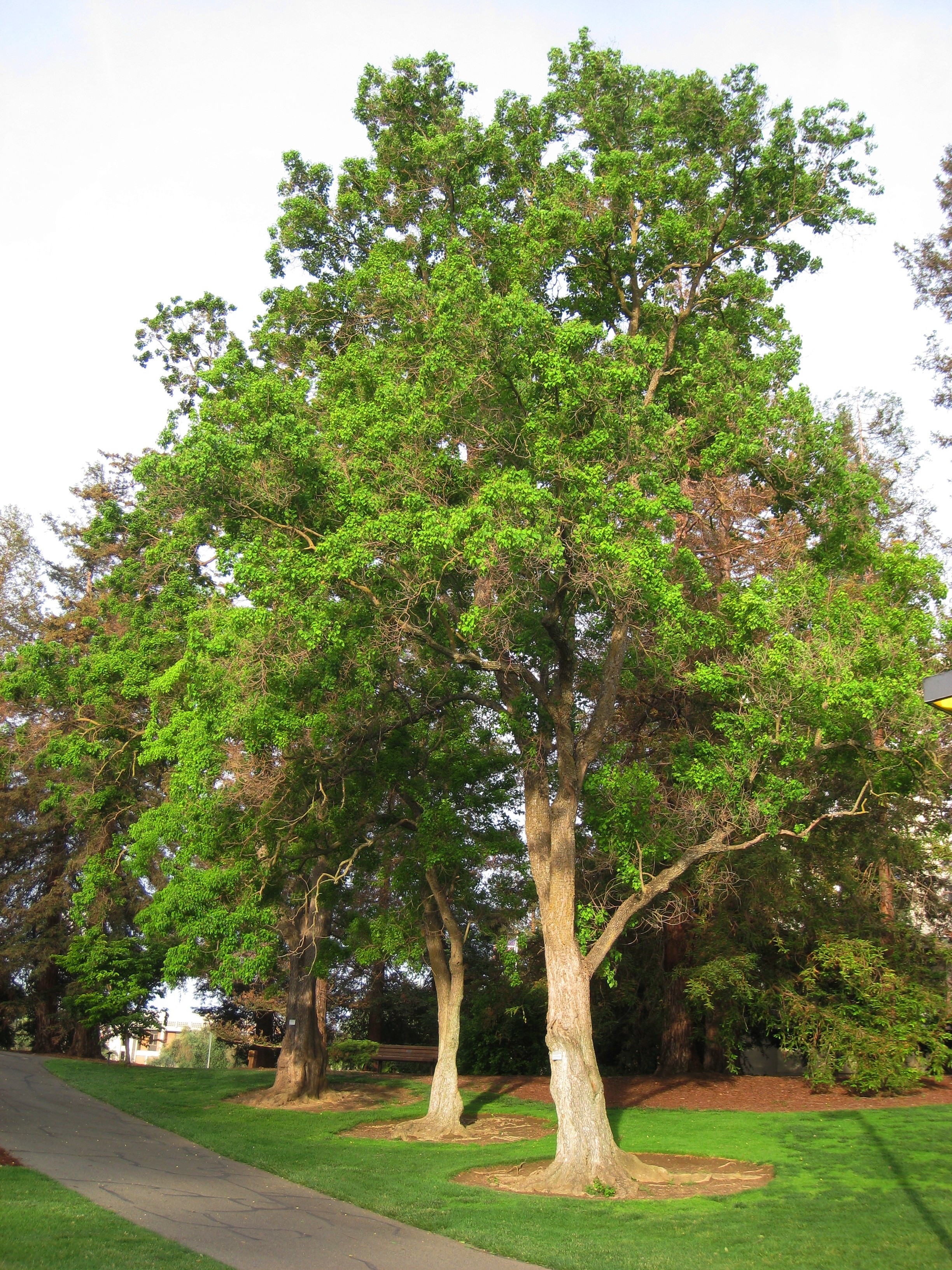 Triadica sebifera (syn: Sapium sebiferum) — Chinese tallow tree. At University of California at Davis arboretum, Davis, California.